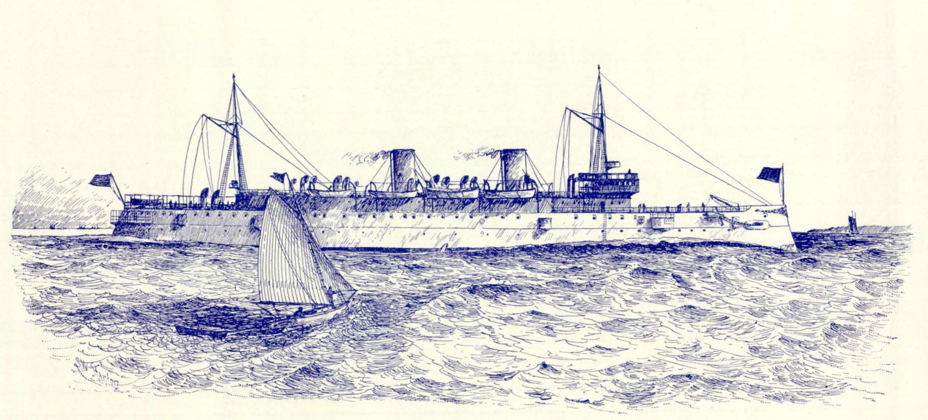 Minneapolis, armored cruiser built 1894.